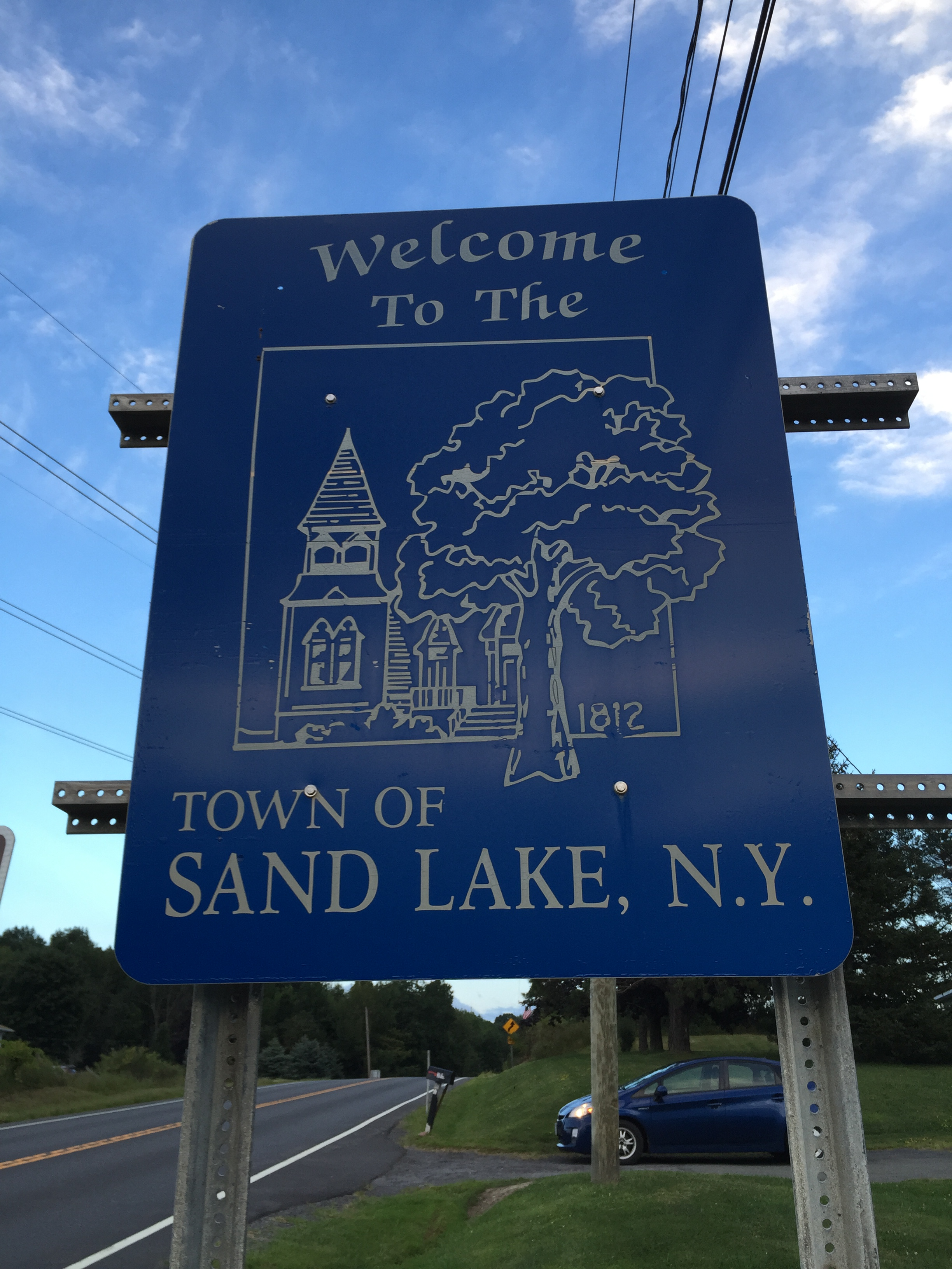 "Welcome to the Town of Sand Lake" sign along eastbound New York State Route 43 (West Sand Lake Road) entering Sand Lake, New York from North Greenbush, New York